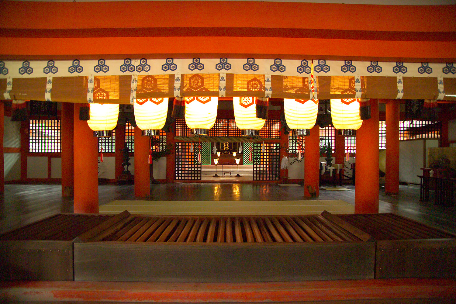 Altar in building at Itsukushima Shrine, Miyajima, Hiroshima Prefecture, Japan. I took this photo and contribute my rights in the file to the public domain; people and organizations retain rights to images in it.